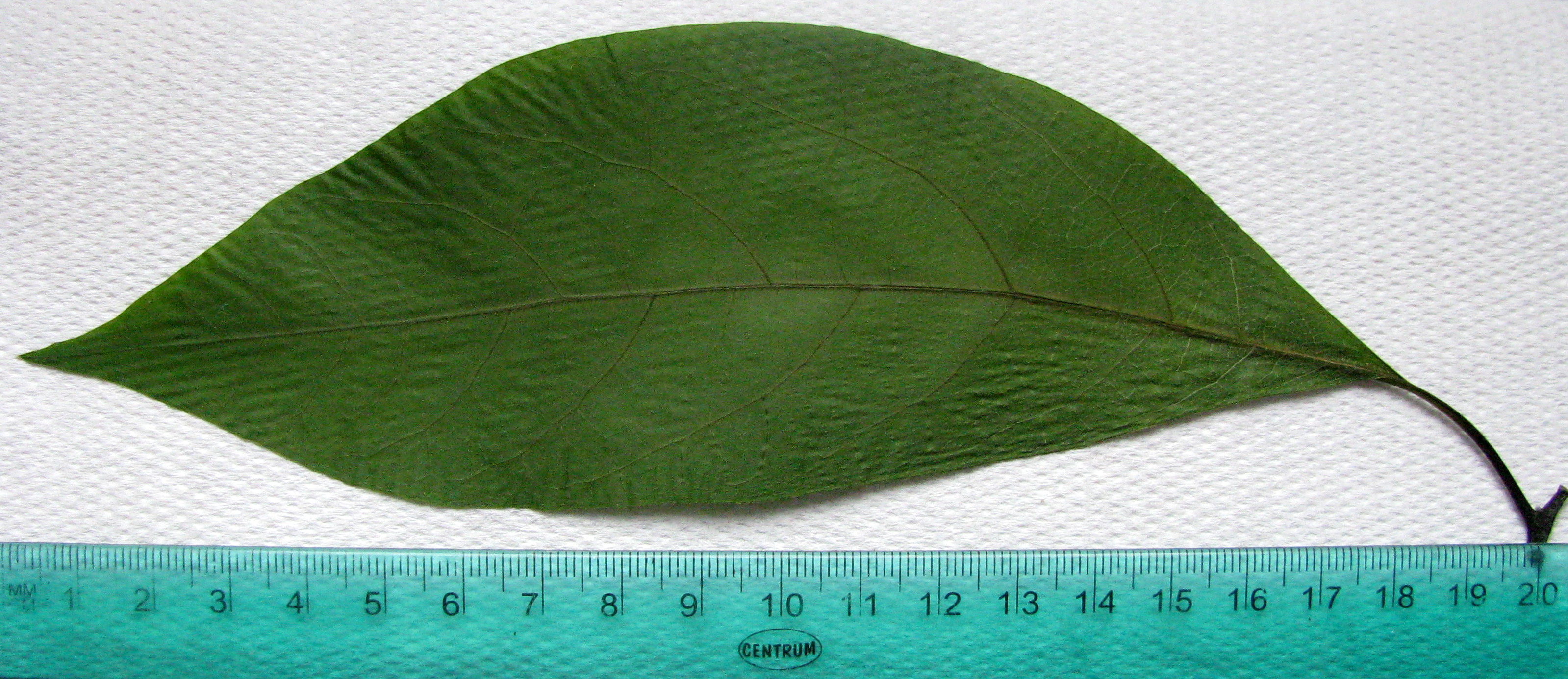 a cut avocado leaf, houseplantRomână: o frunza de avocado de apartament, uscata